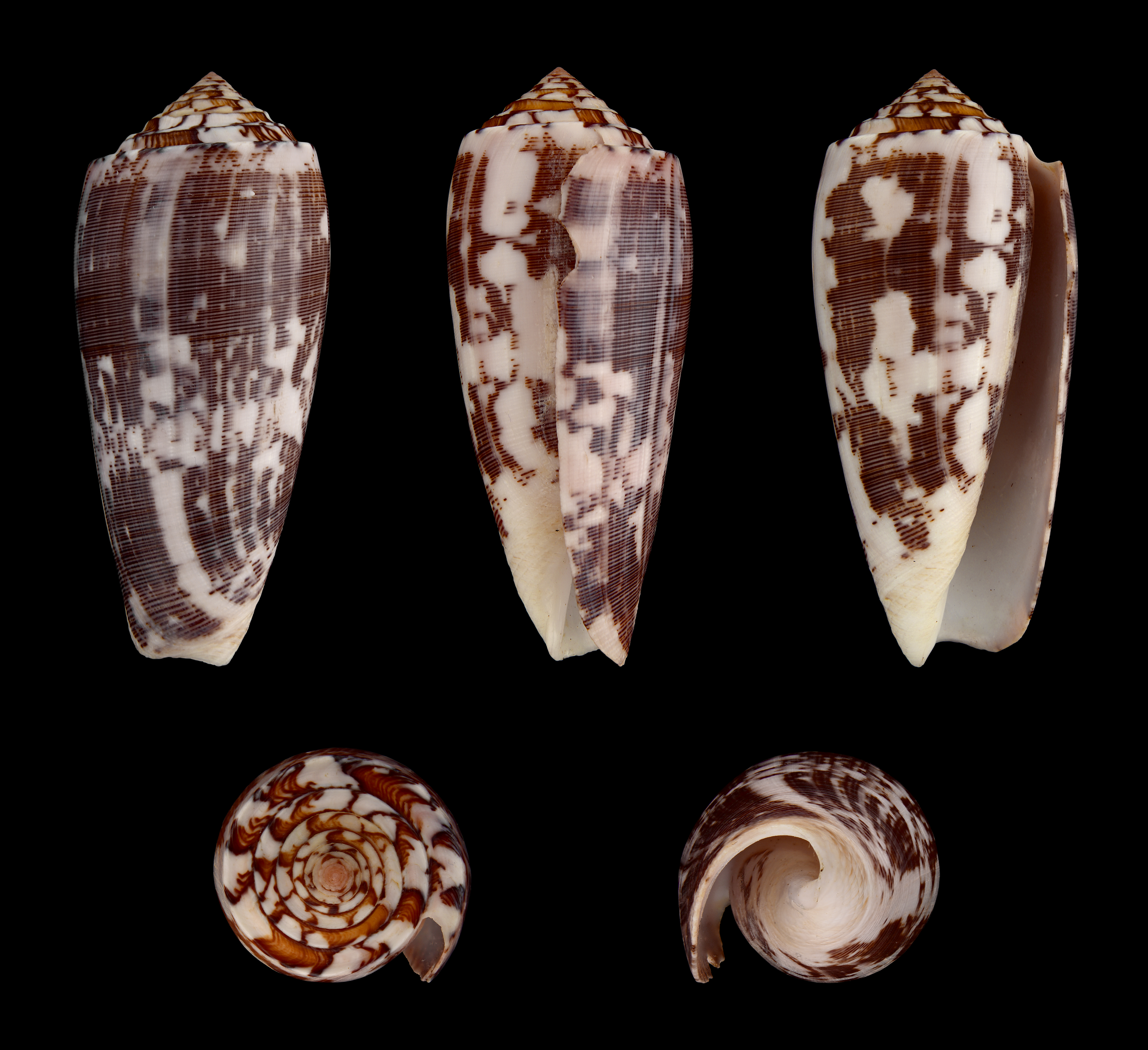 Striate Cone, Length 7.5 cm; Originating from the Indo-Pacific; Shell of own collection, therefore not geocoded. Dorsal, lateral (right side), ventral, back, and front view.